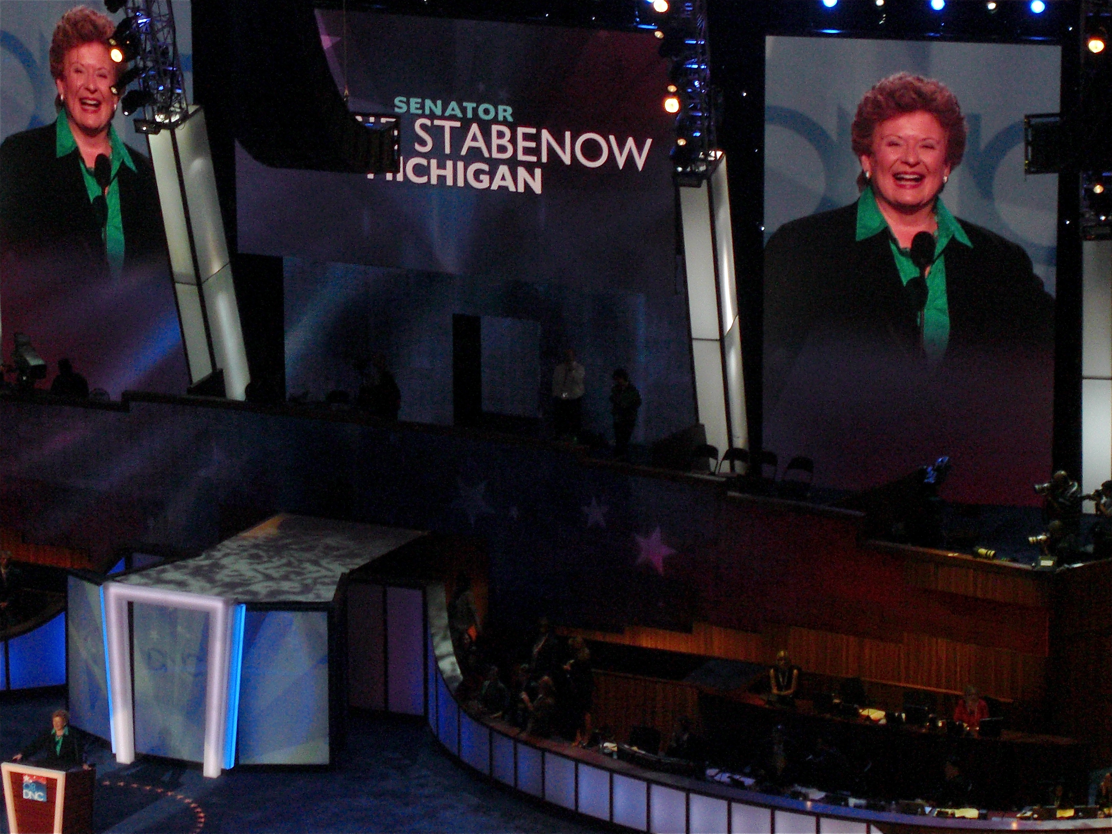 Debbie Stabenow speaks during the second day of the 2008 Democratic National Convention in Denver, Colorado, United States.